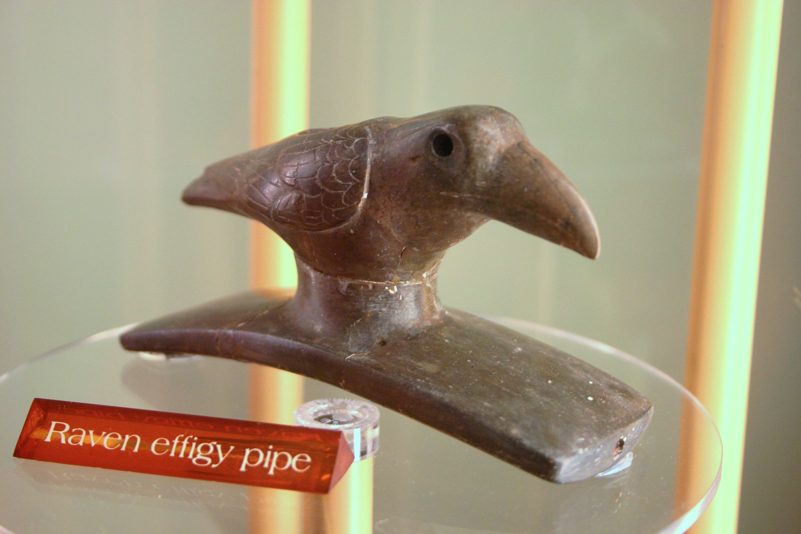 A raven effigy pipe in the museum at Hopewell Culture National Historical Park, 6/16/2006